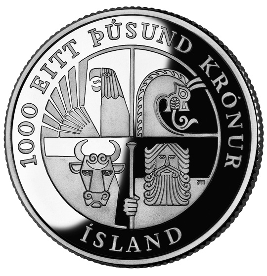 2000 Leif Ericson Icelandic 1000 Krona Reverse